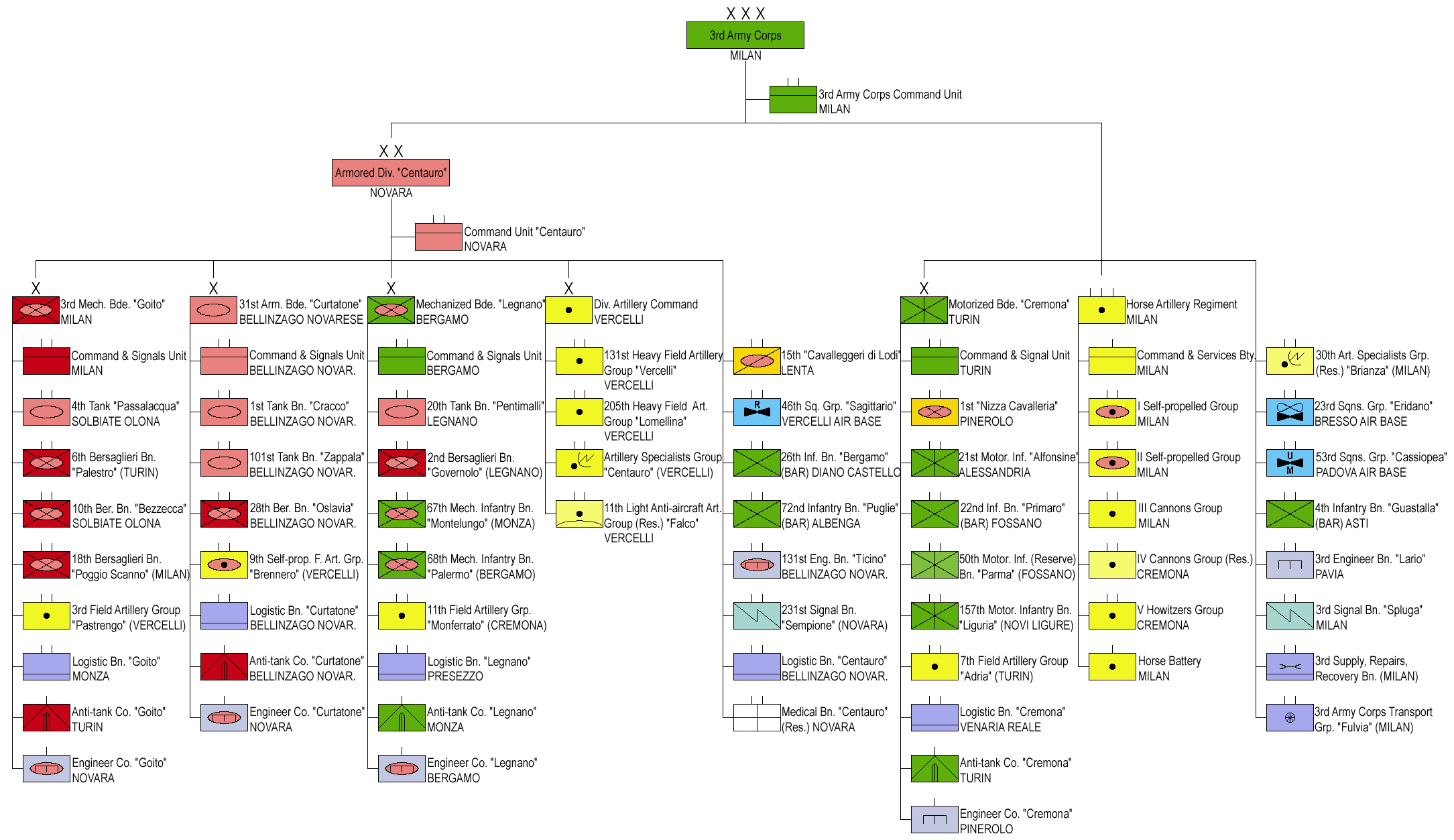 Structure of the Italian Army's 3rd Army Corps in 1977